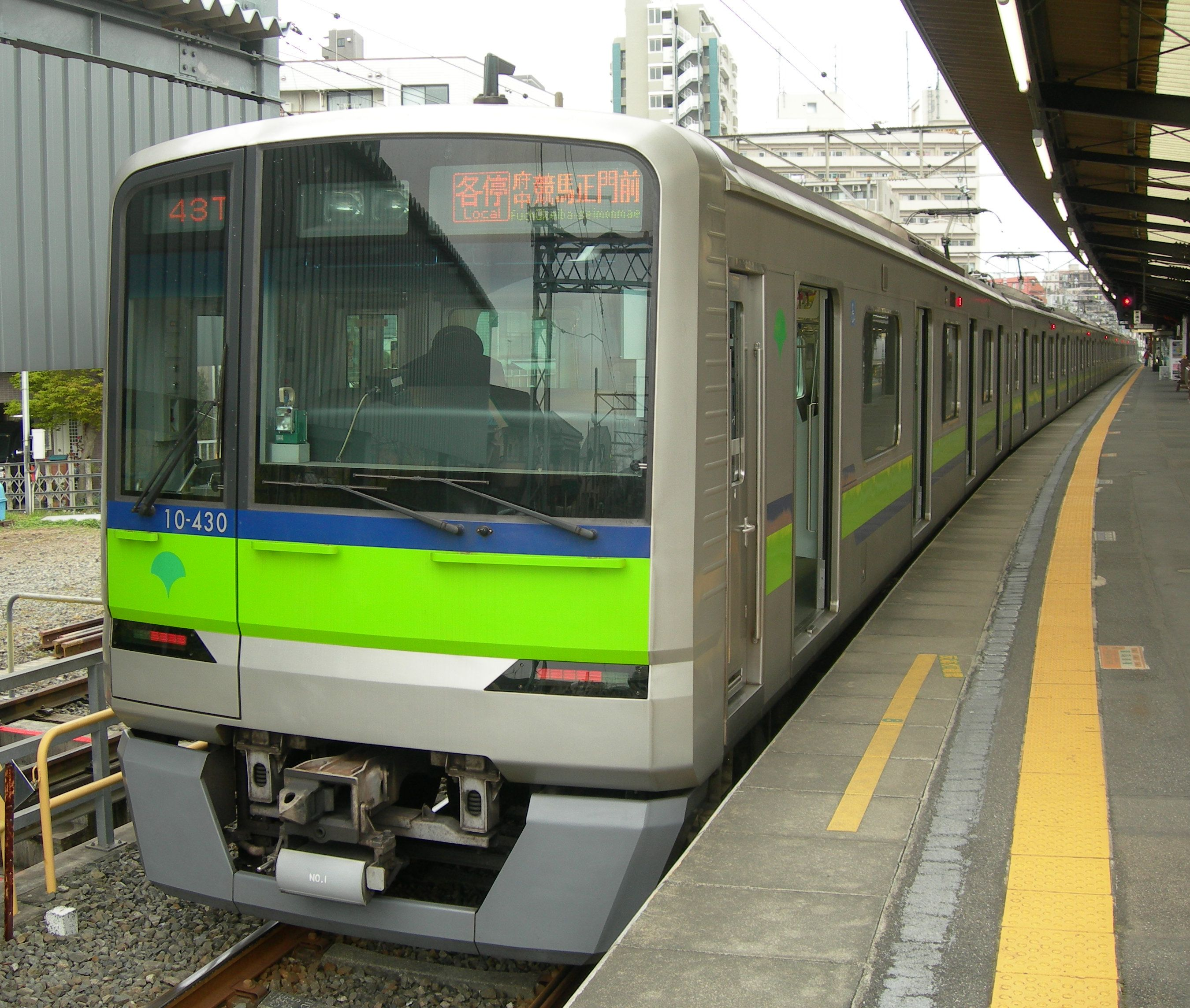 Toei 10-300 series EMU set 10-430 at Higashi-Fuchu Station